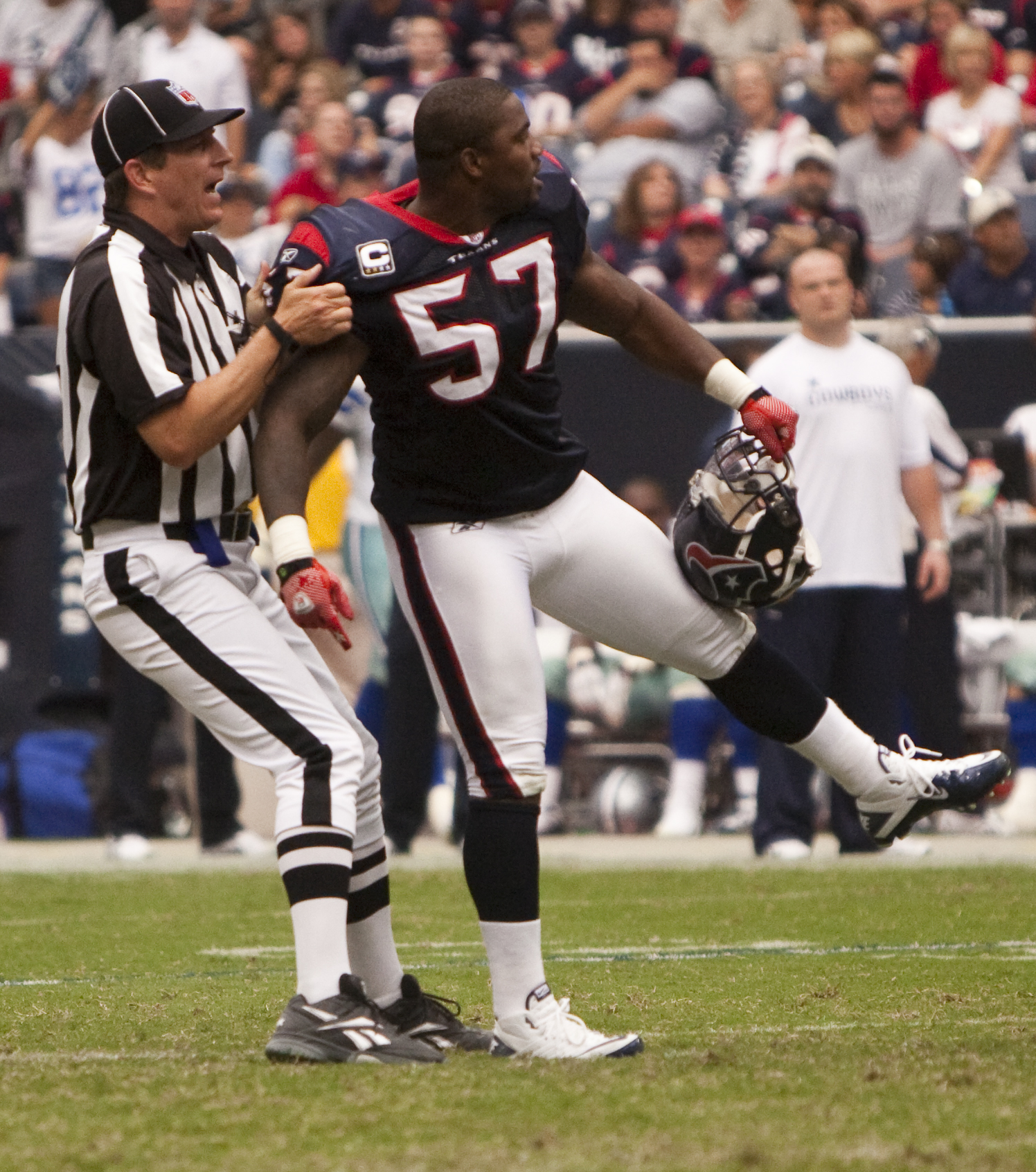 Kevin Bentley of the Houston Texans gets yanked by an official while attempting to retaliate for some after whistle shoving during their loss to the Dallas Cowboys Sunday Sept. 26, 2010.